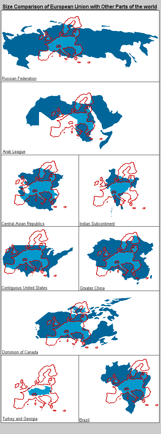 Comparison Size with European Union map